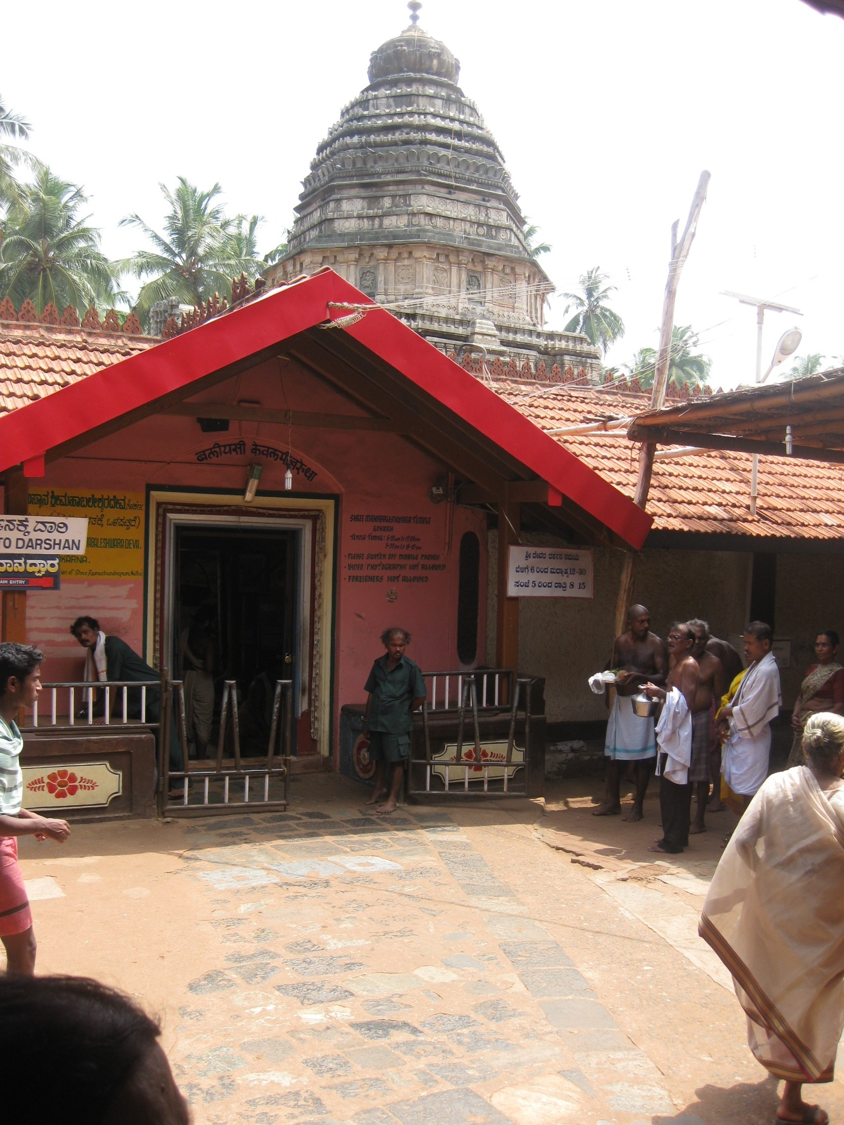 Main entry to the Mahabaleshwar Temple at Gokaran